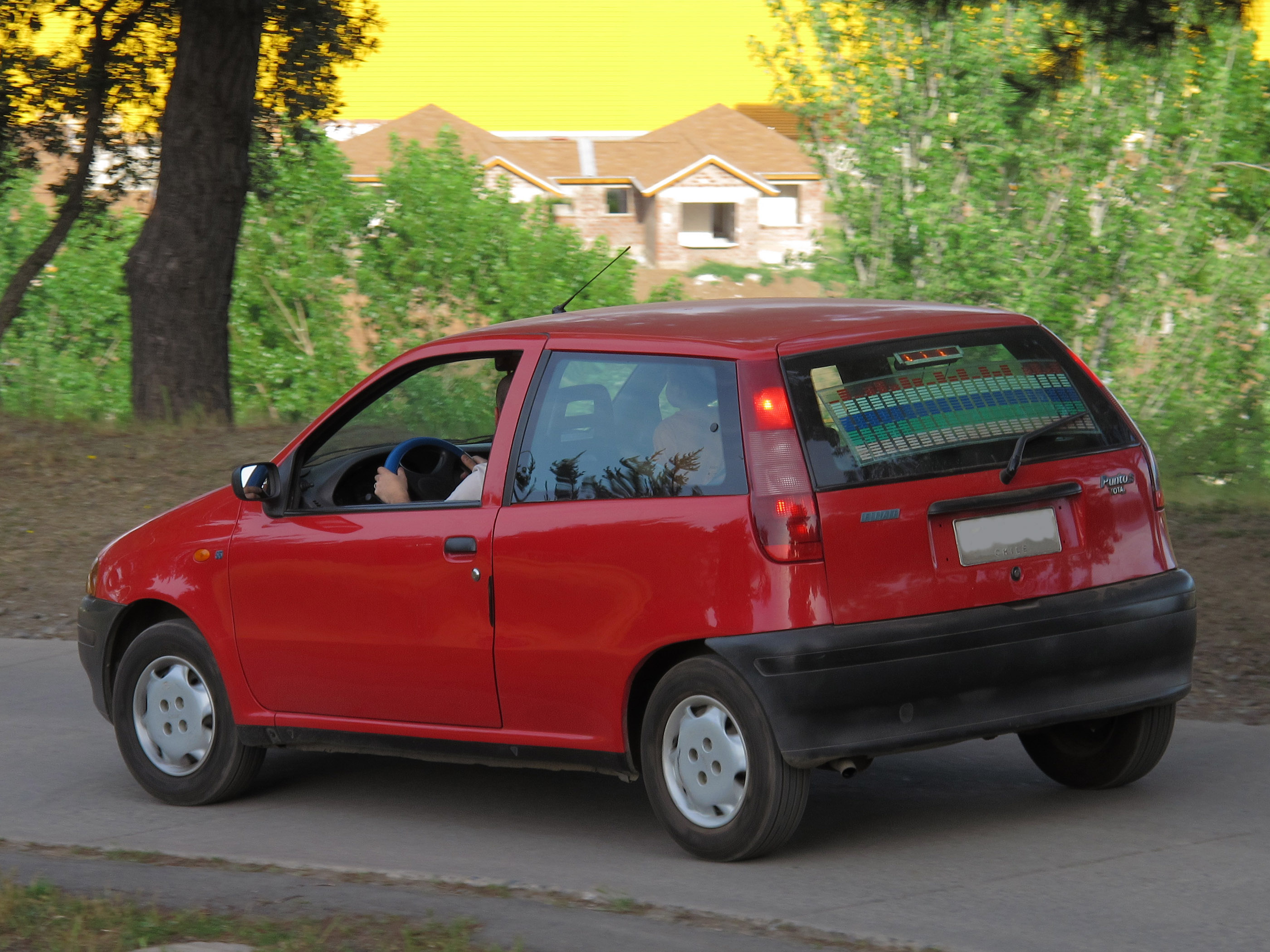 Fiat Punto 55 S 1998